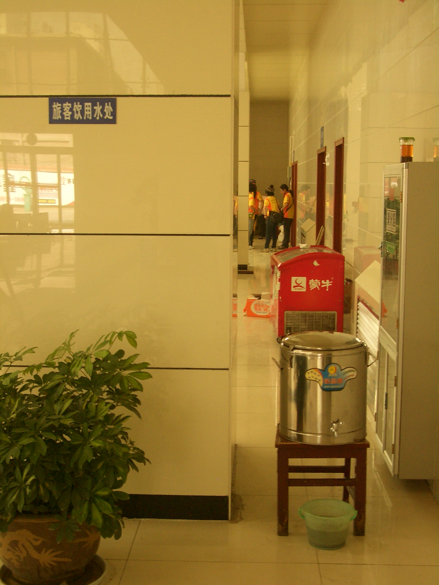 In a corner of the main hall of the new Lanzhou Bus Station, next door to the Lanzhou Railway Station. Note the hot-water dispenser, providing passengers with free boiling water to make a cup of tea or a bowl of instant noodles. This kind of facility is ubiquitous in China.